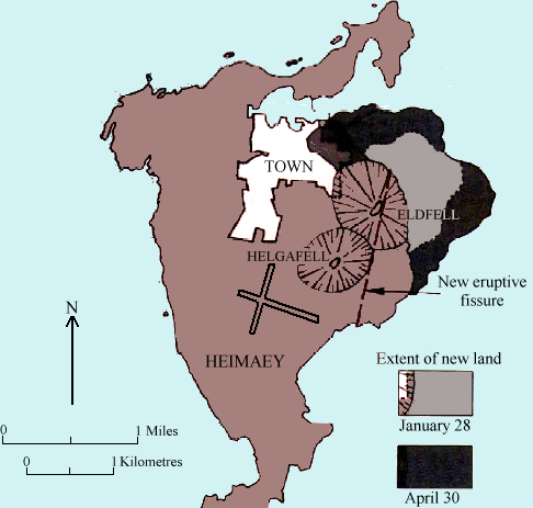 Diagram showing the changes to the island of Heimaey caused by the 1973 Eldfell eruption. Adapted from USGS publication 'Man against volcano'